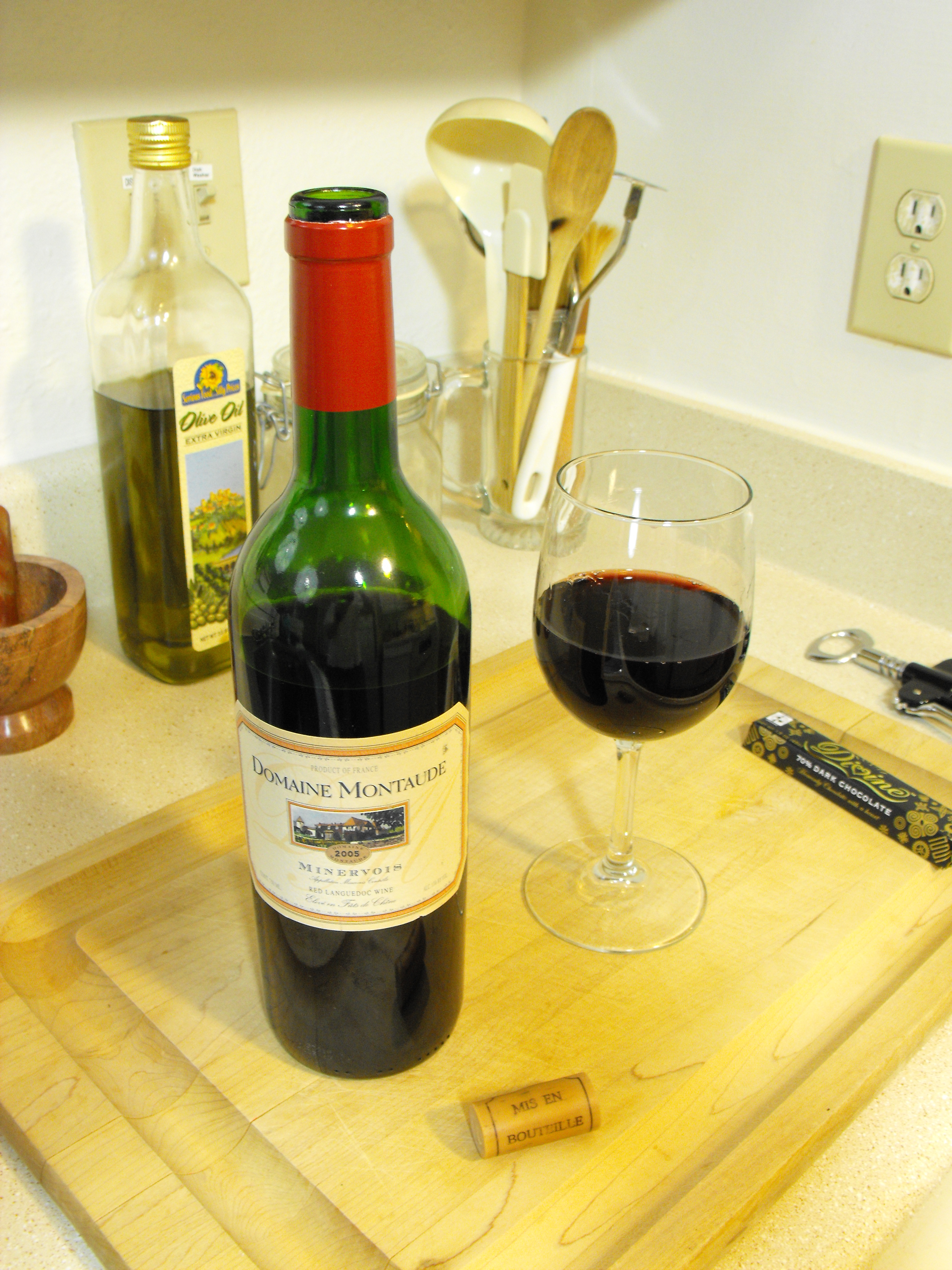 A bottle and glass of French wine from the Minervois AOC of the Languedoc.